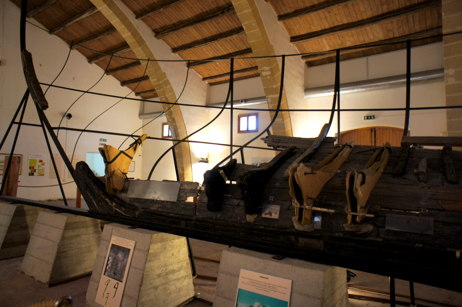 The Marsala ship